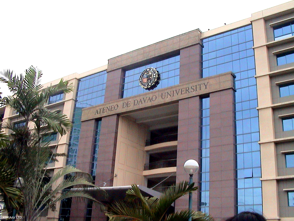 Ateneo de Davao University Finster Hall